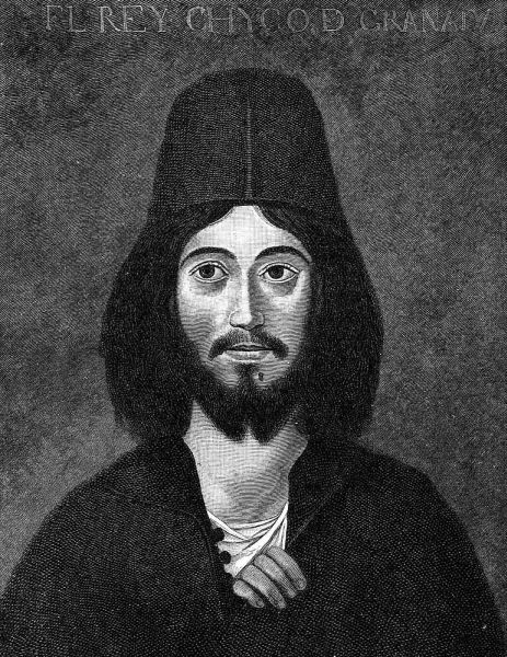 Muhammad XII, a.k.a. Boabdil, ultimate ruler of the nasrid emirate of Granada